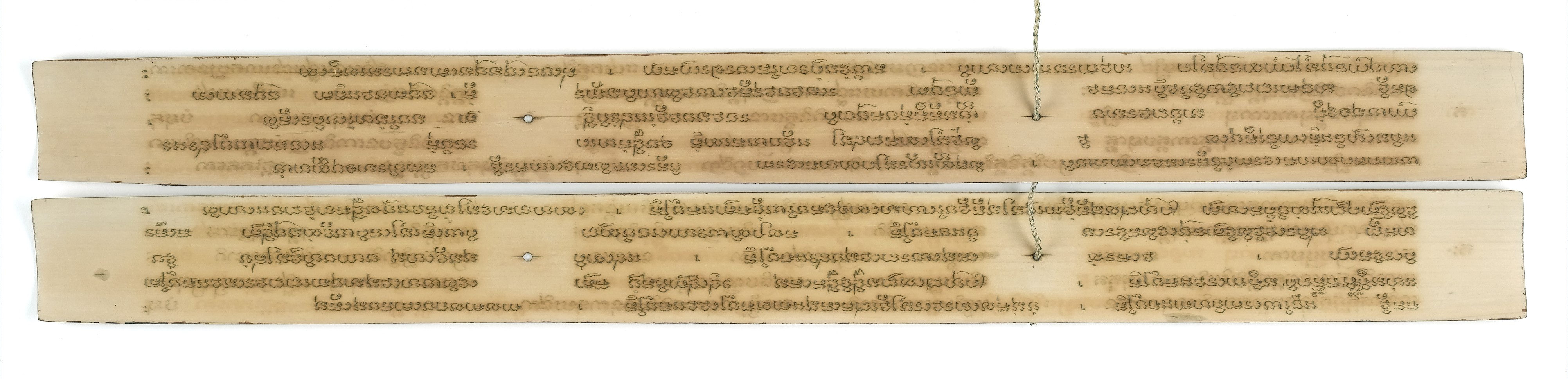 Thai 17 Asian Collection